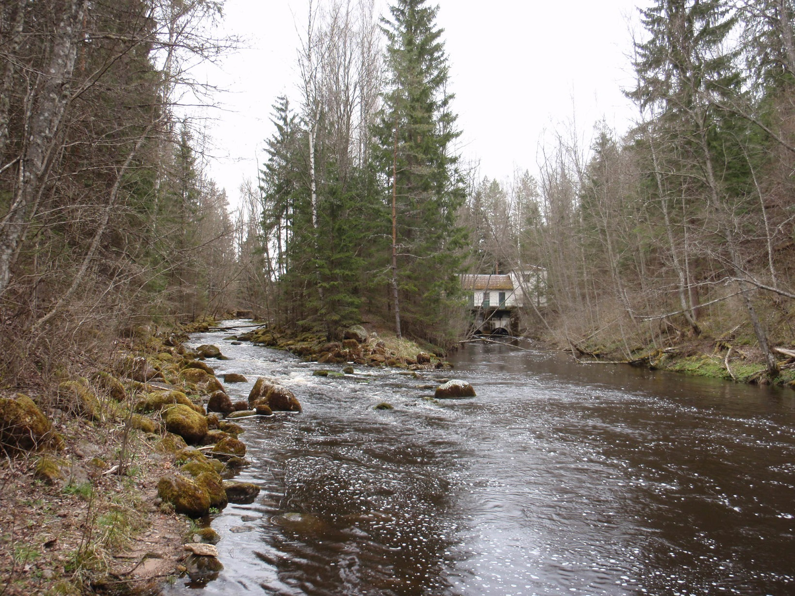 Saesaare HEJ